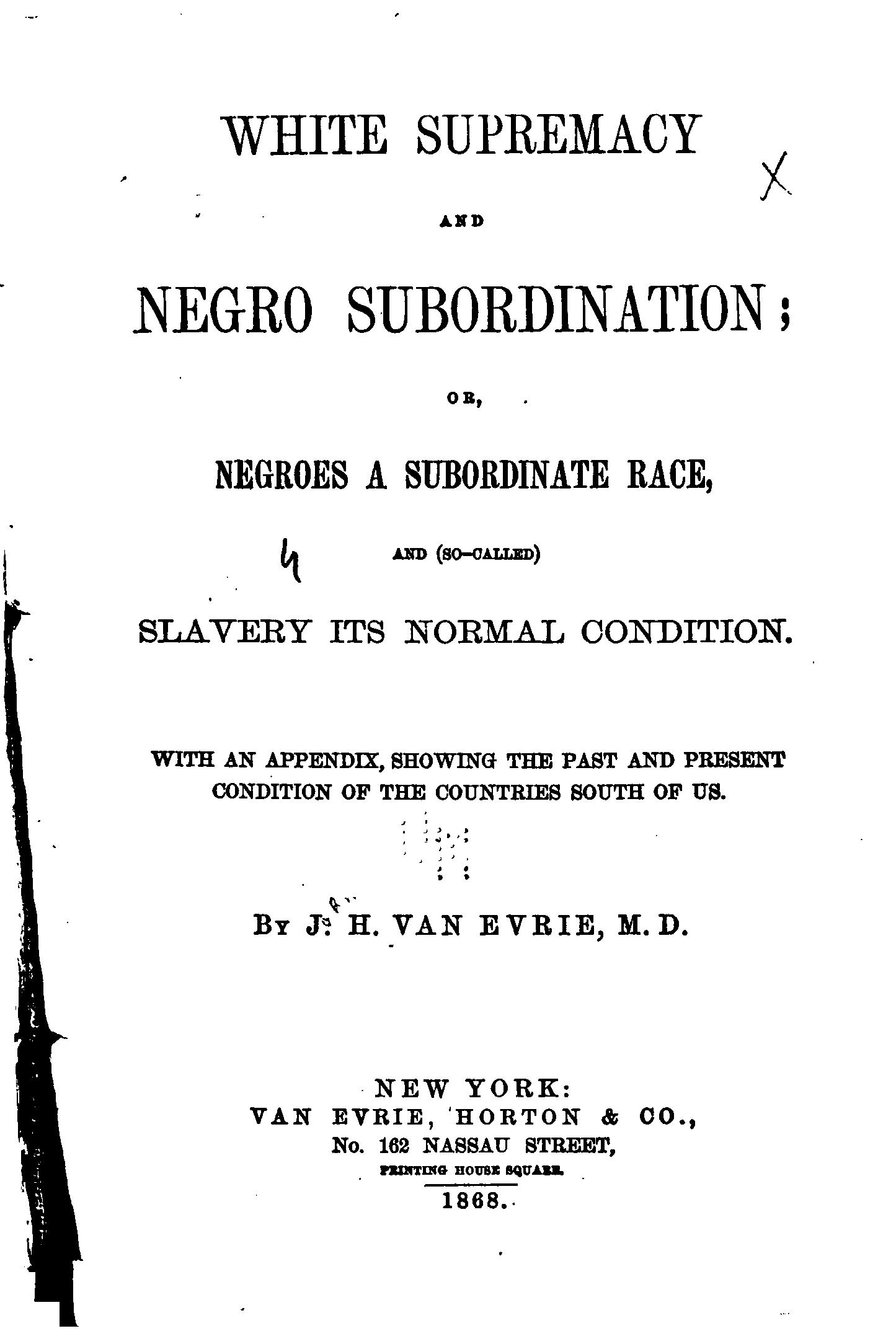 Title page of White Supremacy and Negro Subordination by John H. Van Evrie